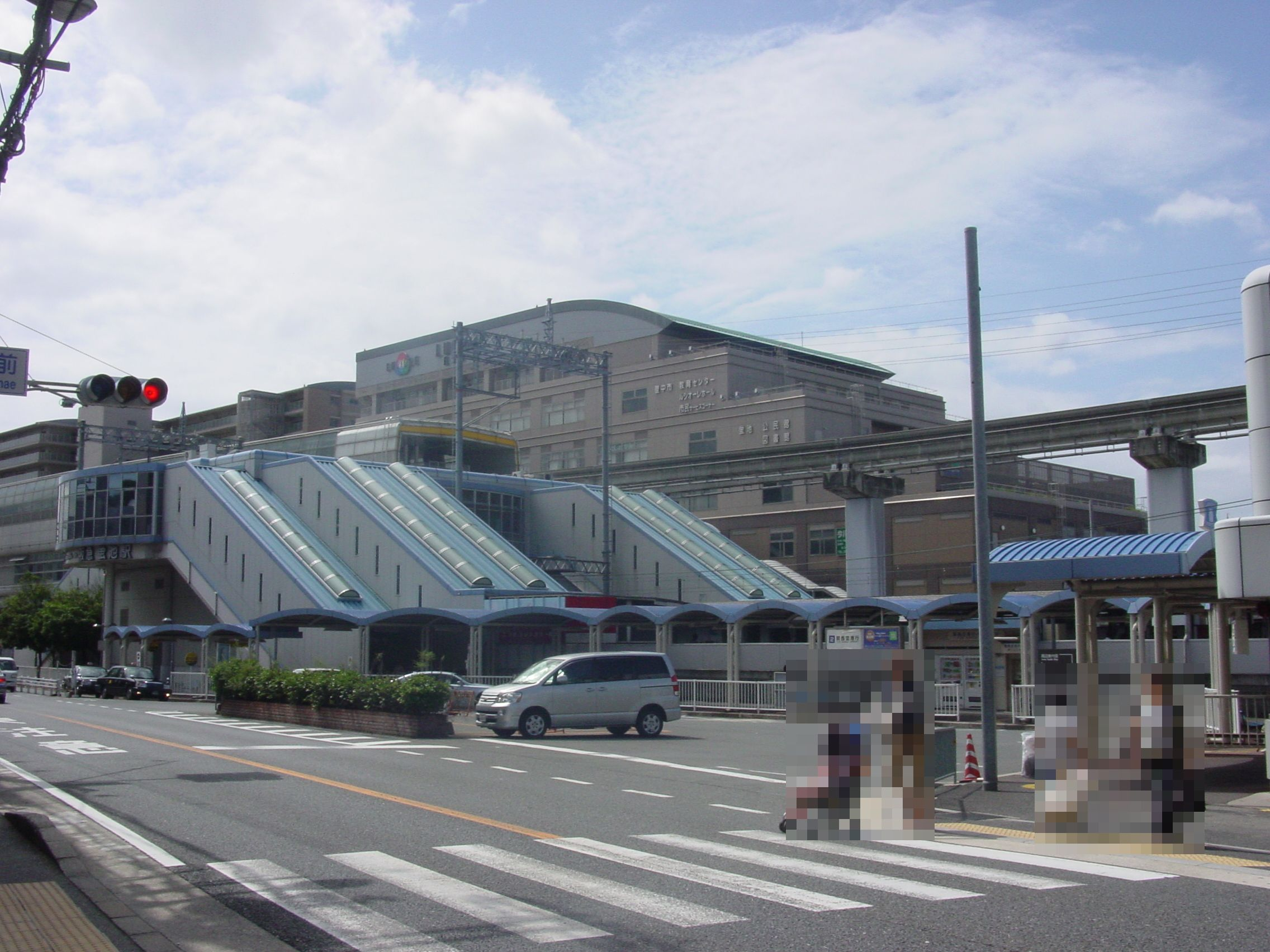 Hotarugaike Station, which is of Hankyu and Osaka Monorail.